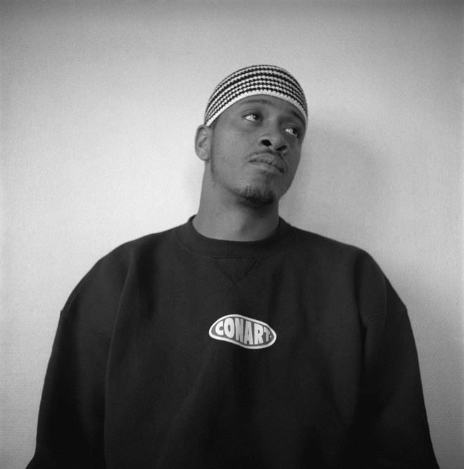 Chali 2na (Jurassic 5) in Hamburg/Germany 2000